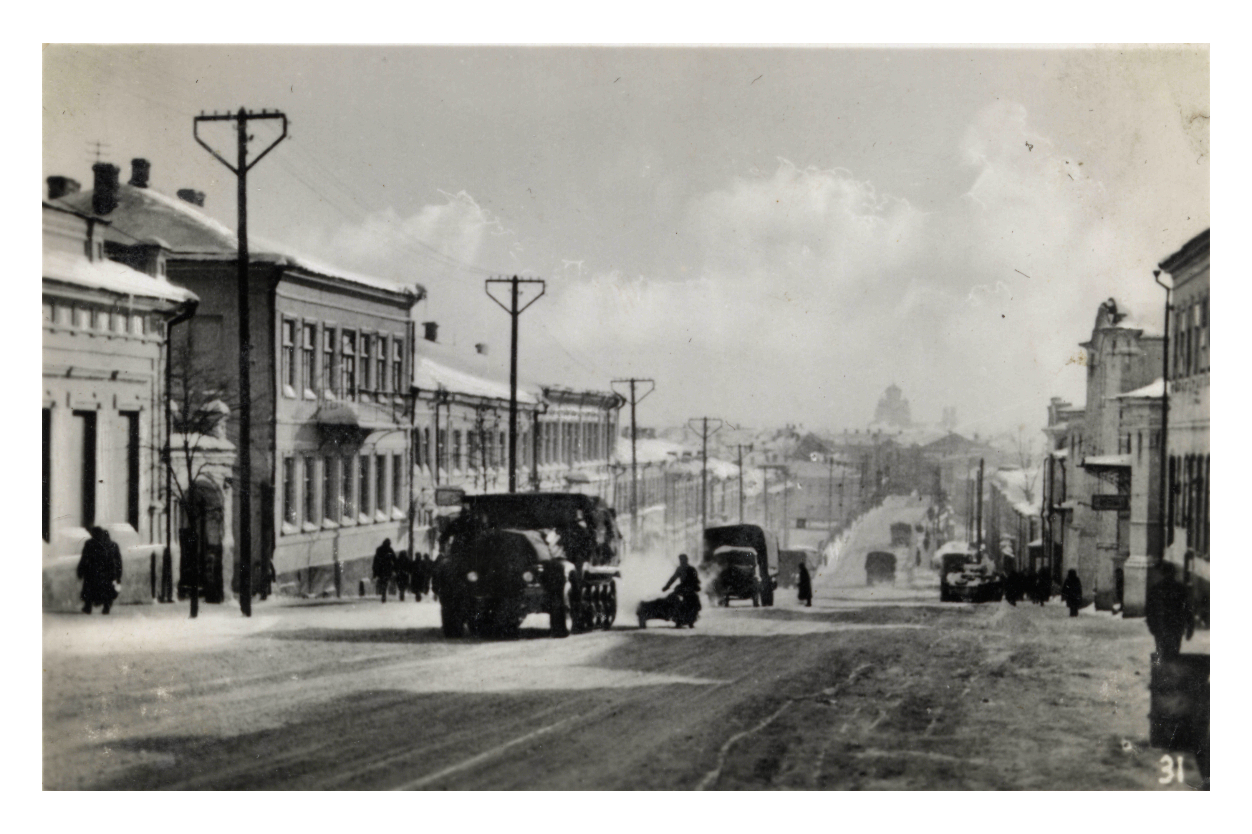 Nazi army ride by Lenin Street (former Bolkhovskaya Street) in Oryol